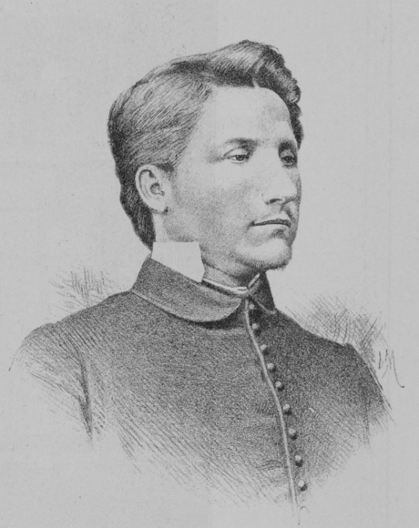 Portrait of František Chalupa, Czech writer.